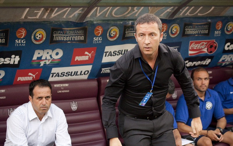 Stoica at CFR Cluj - Unirea Urziceni in Romanian Supercup 2010 (4-2).